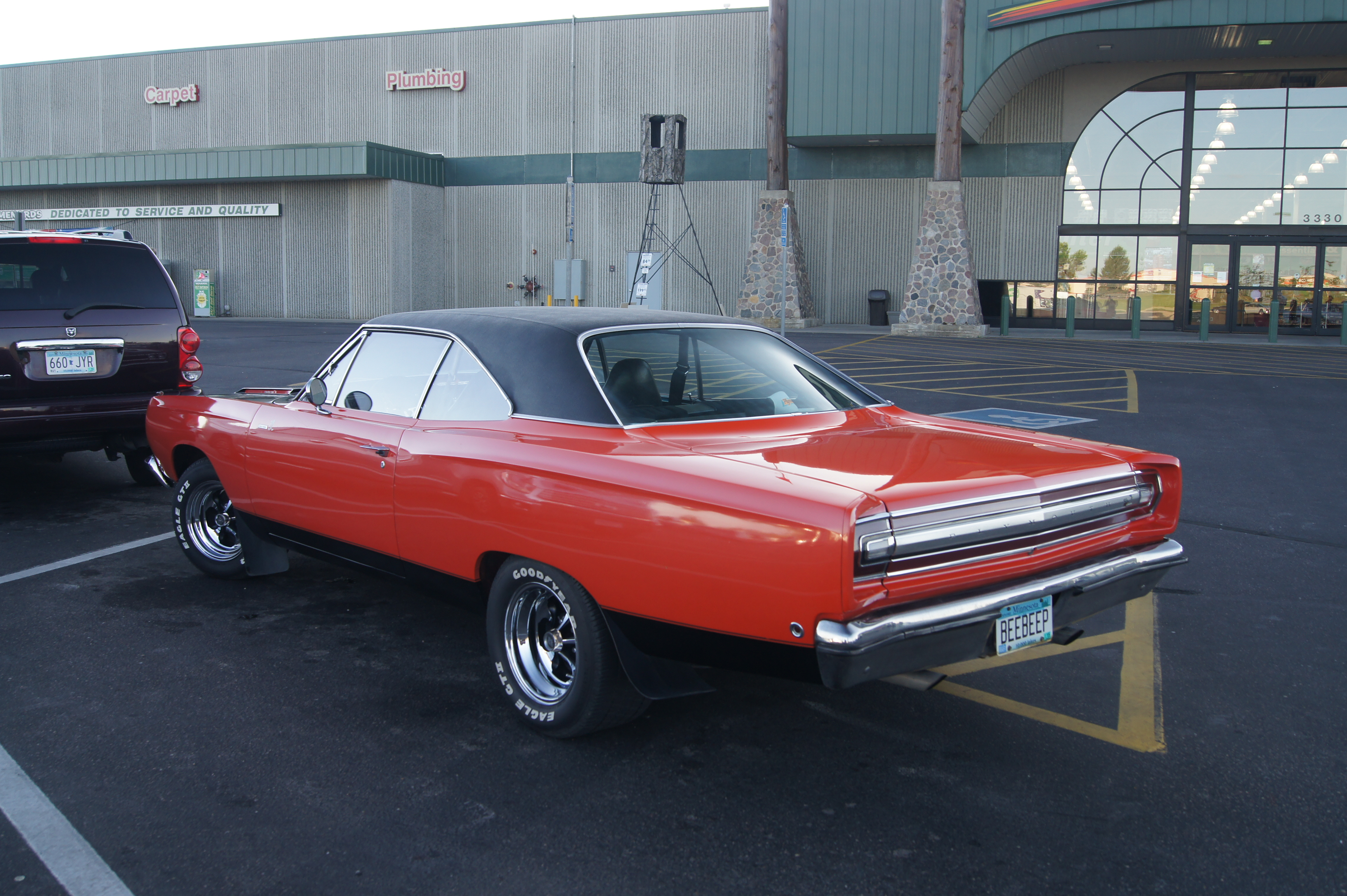 I had a nice chat with the owner of this recently (and very nicely) restored Roadrunner. He kept everything Roadrunner, but took some liberties, like the color was for Roadrunners but not available until 1970. He also explained the the trim panel between the tail lights was an option, making it appear a bit more like a GTX. He noted that Roadrunner's panel was pressed bright metal piece and the GTX had a die-cast trun piece.